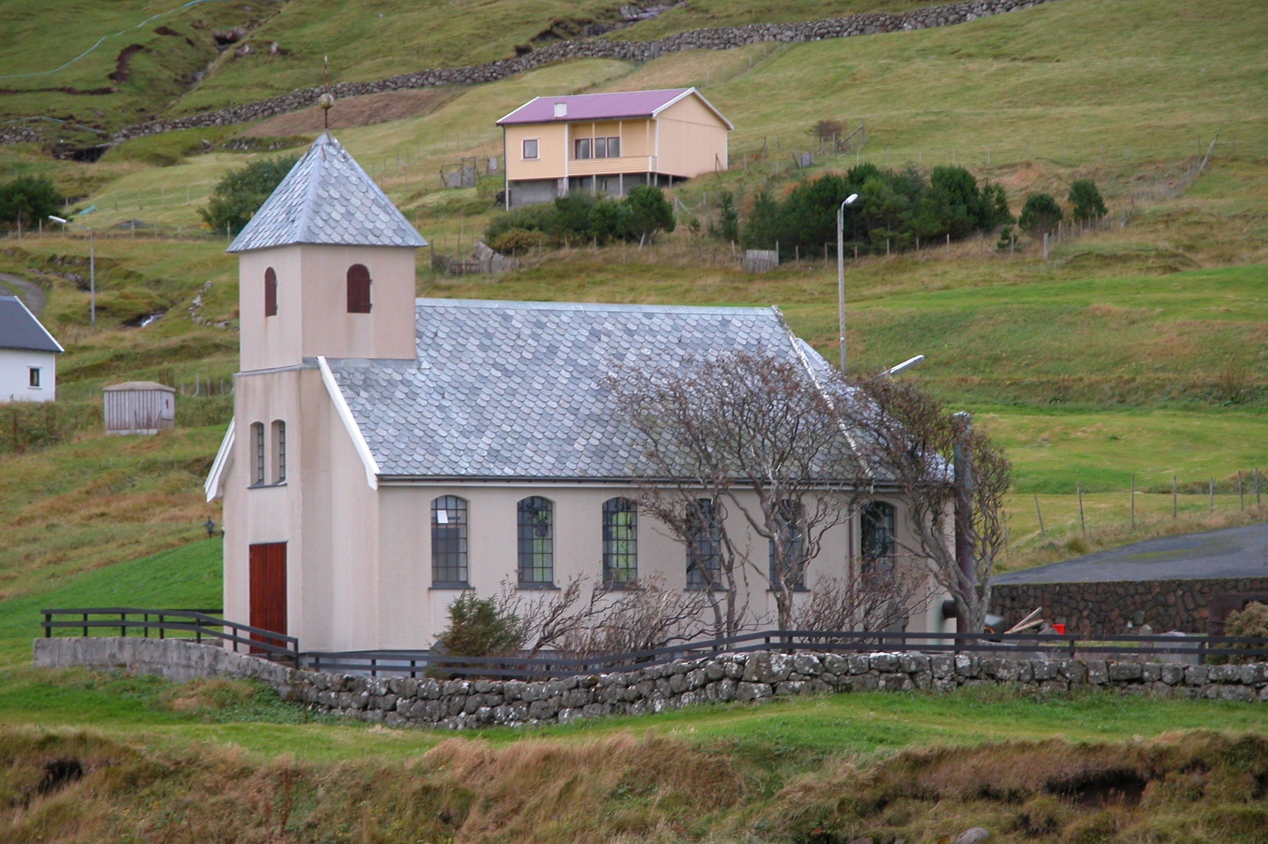 Church of Selatrað, Eysturoy, Faroe Islands